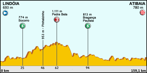 Profile of the 6th stage of the 2014 Volta Ciclística de São Paulo